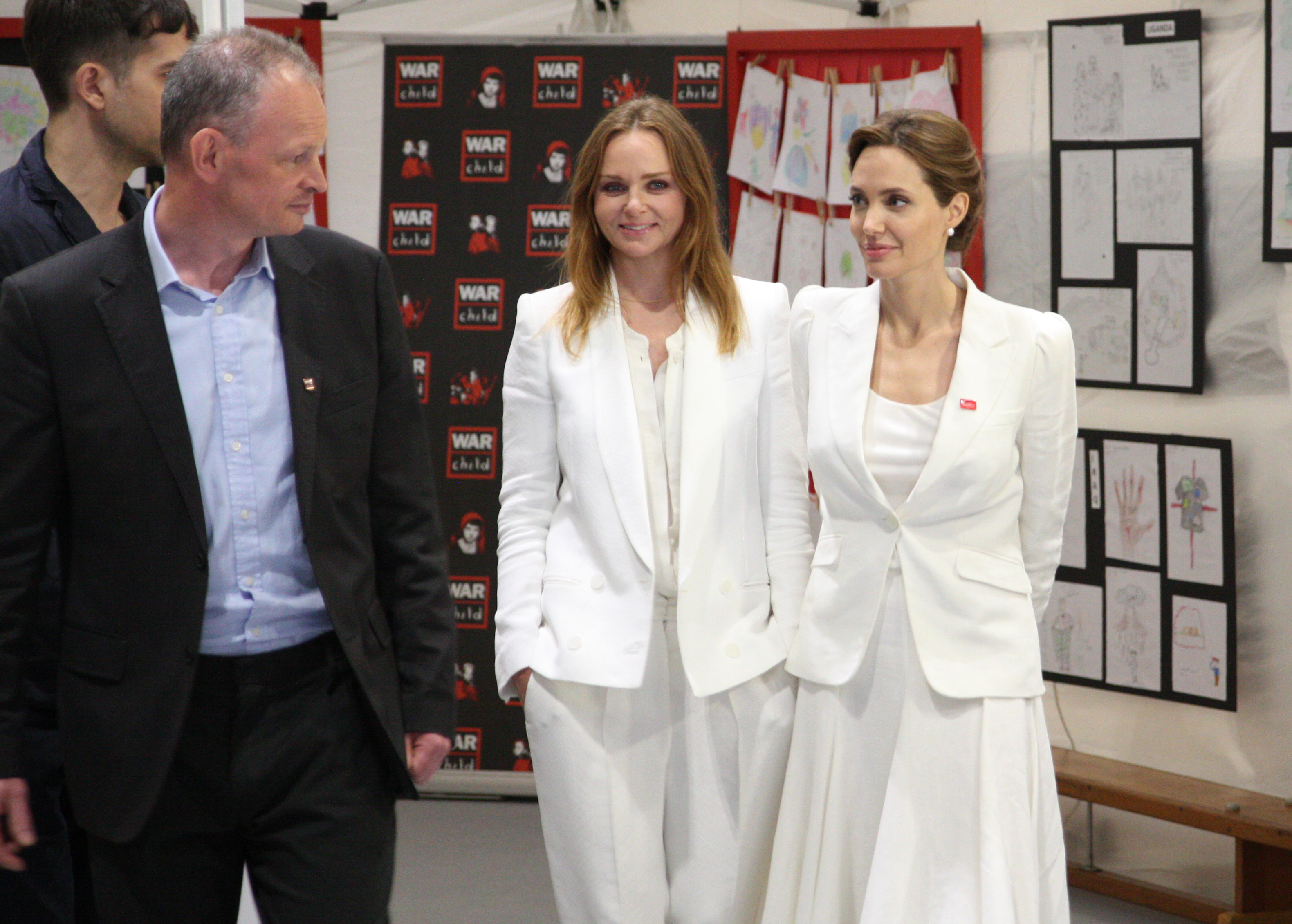 Stella McCartney and UN Special Envoy Angelina Jolie visit the Summit Fringe, 10 June 2014.